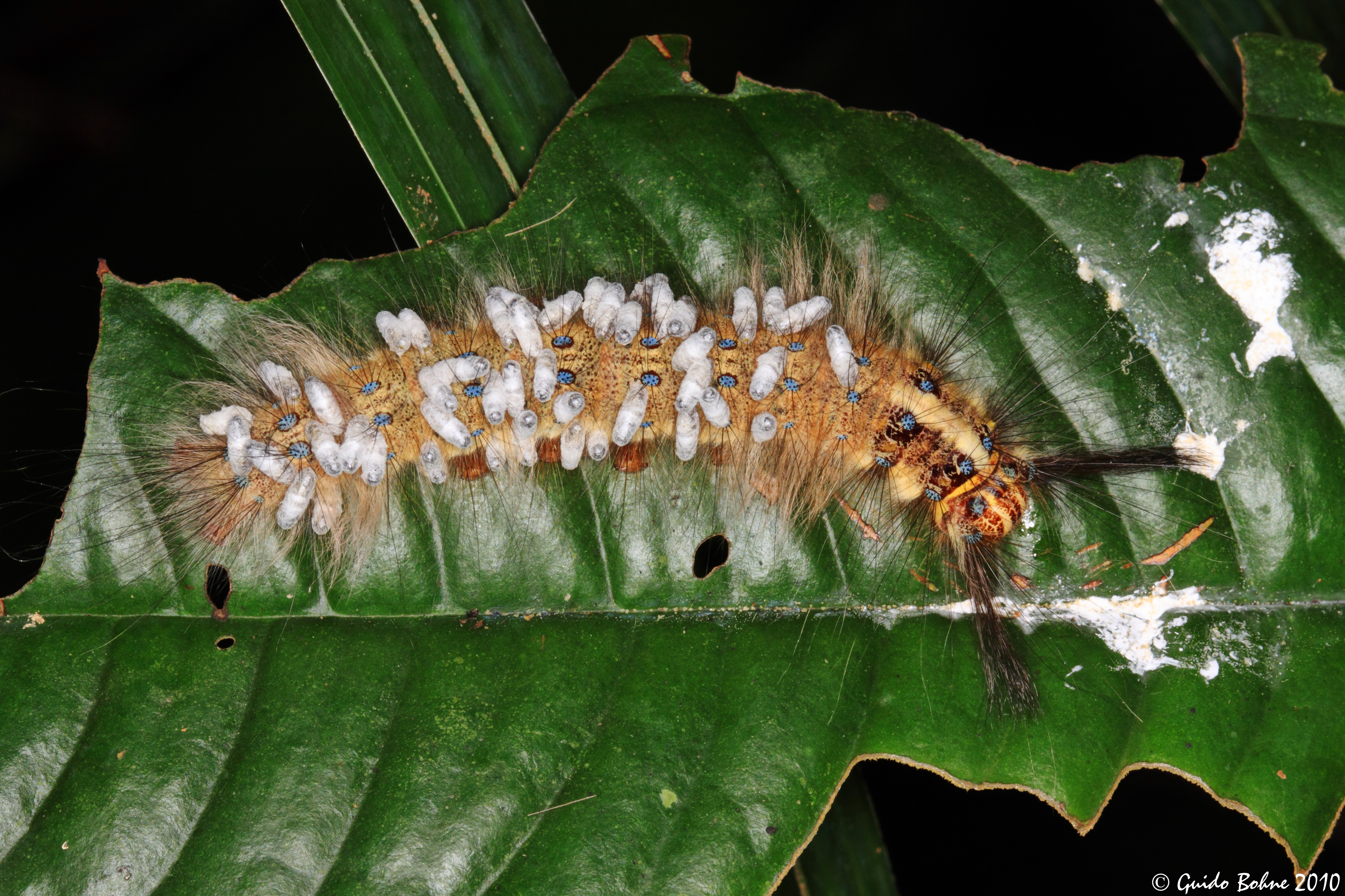 This large (ca. 12 cm) caterpillar of a lappet moth (Family: Lasiocampidae) carried many cocoons of braconid wasps (Family: Braconidae, Genus Apanteles ). Phylum: Arthropoda Subphylum: Hexapoda Class: Insecta (insects, Insekten) Subclass: Pterygota Infraclass: Neoptera Order: Lepidoptera (butterflies & moths, Schmetterlinge) Suborder: Glossata (unranked): Macrolepidoptera Superfamily: Lasiocampoidea Family: Lasiocampidae HARRIS, 1841 (eggars, snout moths or lappet moths, Glucken oder Wollraupenspinner) Subfamily: Lasiocampinae Genus: Trabala LINNAEUS, 1758 [det. John Horstman, 2013, based on this photo] Indonesia, W-Java. vic. Jasinga: Dungus Iwul NP, ca. 250m asl., 18.09.2010 _________________________________________________________________ 100mm macro (canon 2.8), 1/125s, f/16, ISO400, 0EV, ring-flash (IMG_4836)